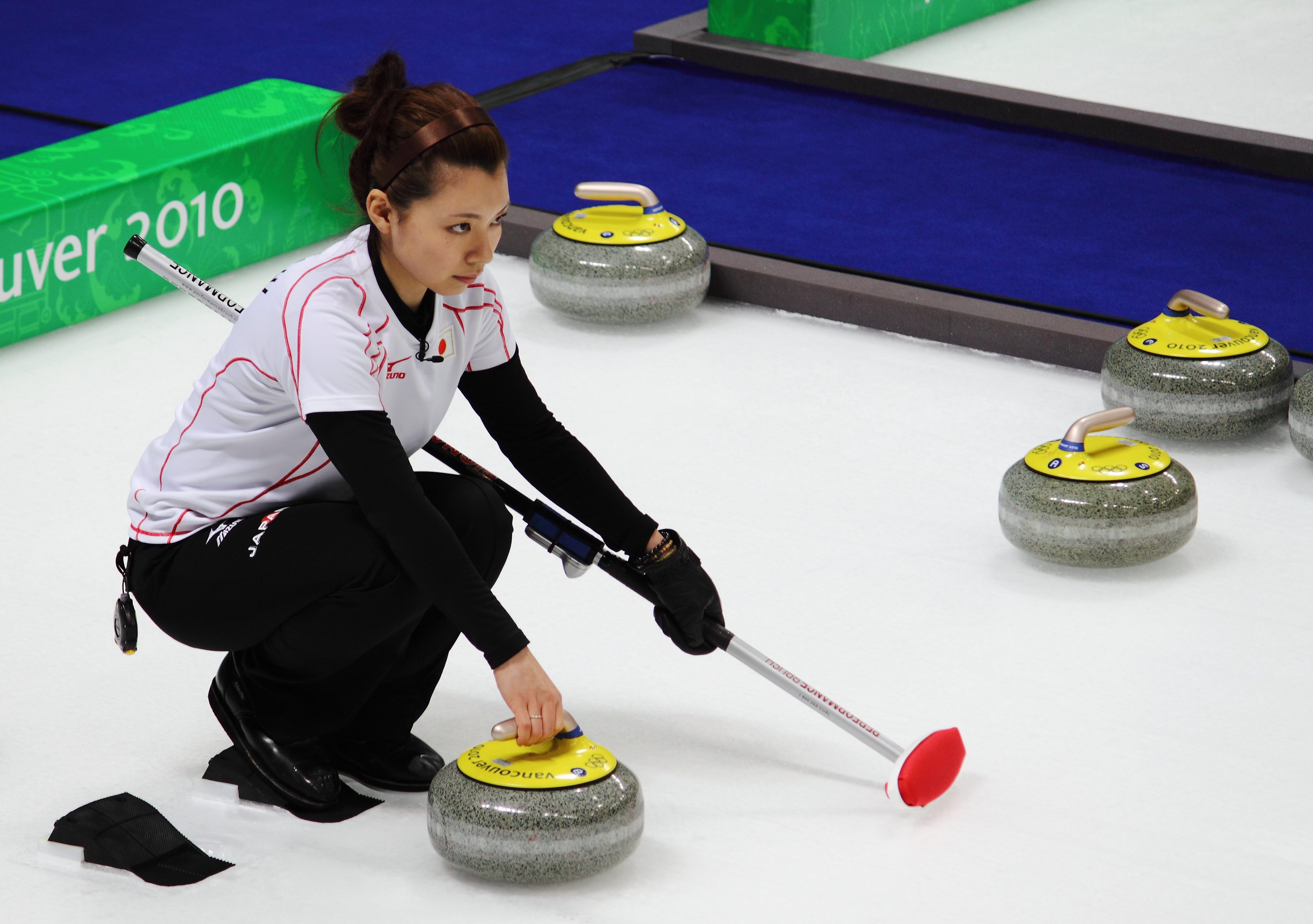 2010 Vancouver Olympic Games - Women's Curling - Preliminary from Vancouver Olympic Centre